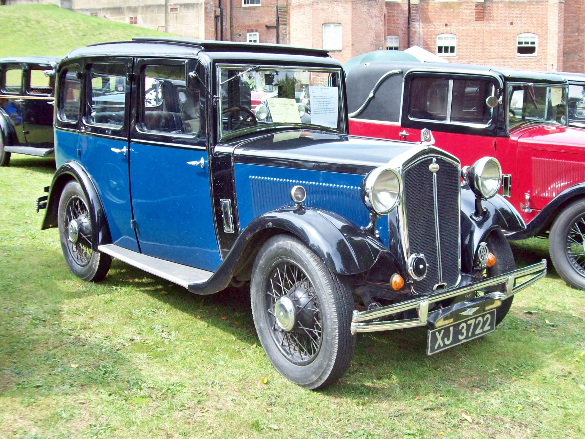 1932 Wolseley Hornet 4-door saloon Engine 1271cc S6 OC Production 19723 Wolseley Register National Rally, Hawksyard Hall, Rugeley 15.08.2010